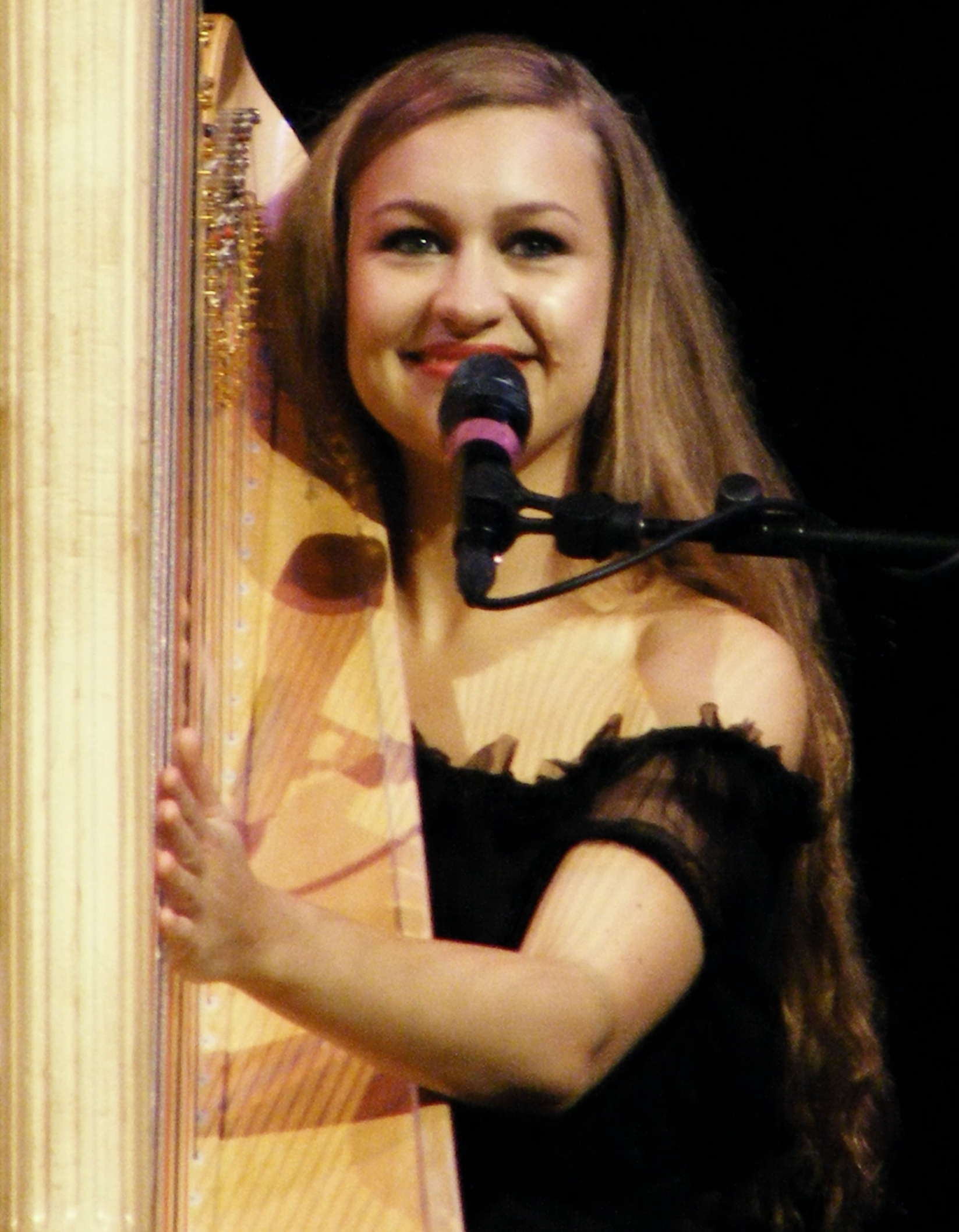 Joanna Newsom at the Palace Theatre, Manchester, on Saturday the 18th of September 2010 Joanna Newsom at the Palace Theatre, Manchester, on Saturday the 18th of September 2010